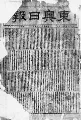 Front page of the first issue of Tōō Nippō